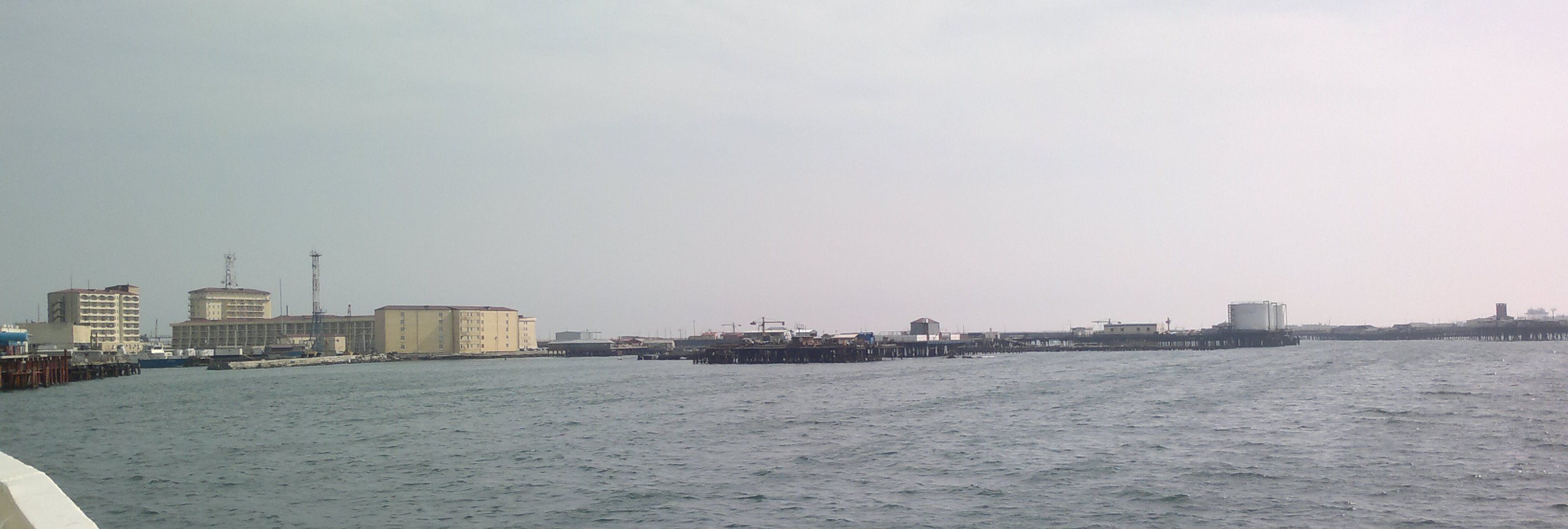 View of Oil Rocks from a ship